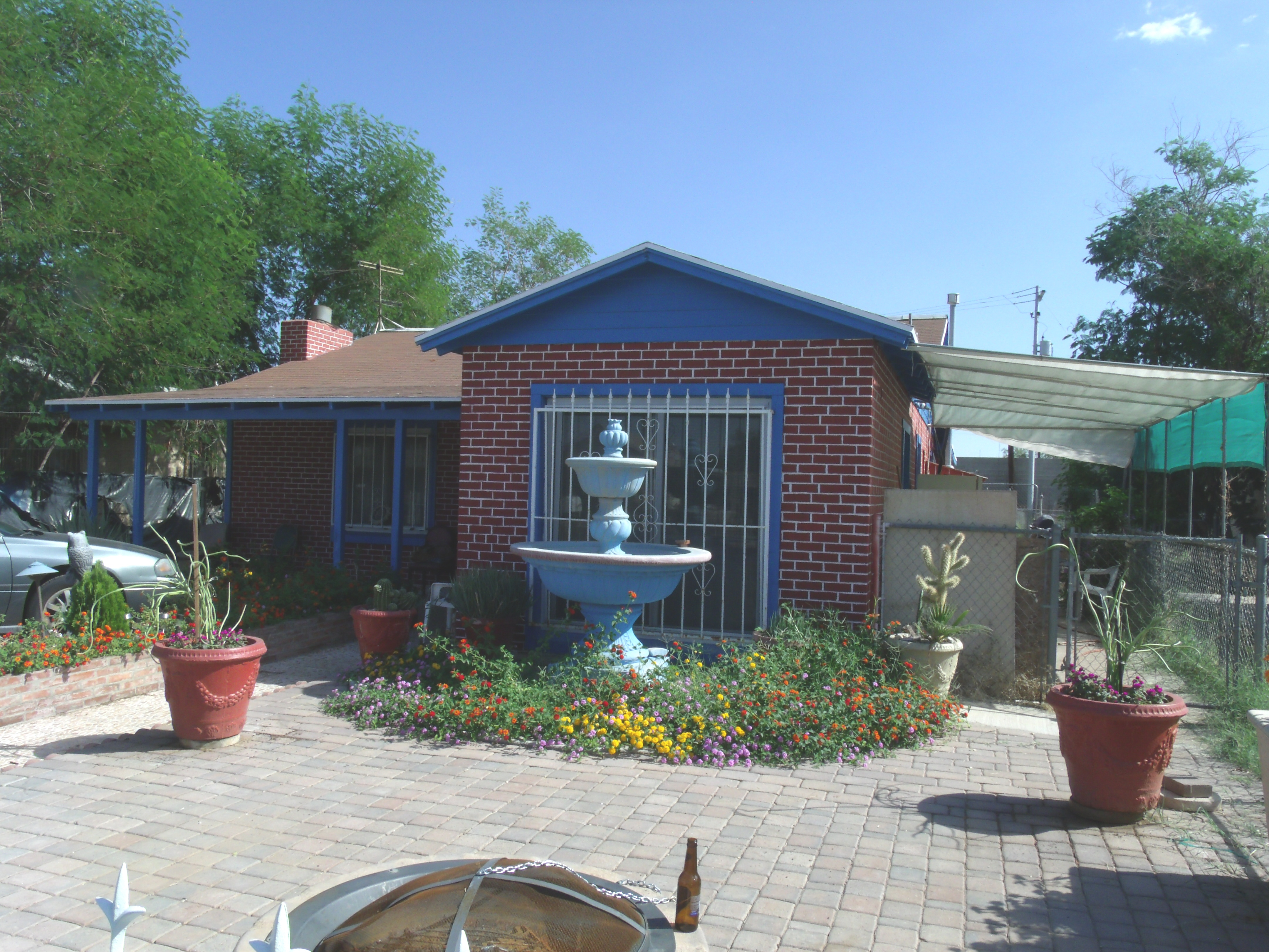 The Adam Diaz House was built in 1942 and is located at 1313 S. 1st St. This property is recognized as historic by the Hispanic American Historic Property Survey of the City of Phoenix.